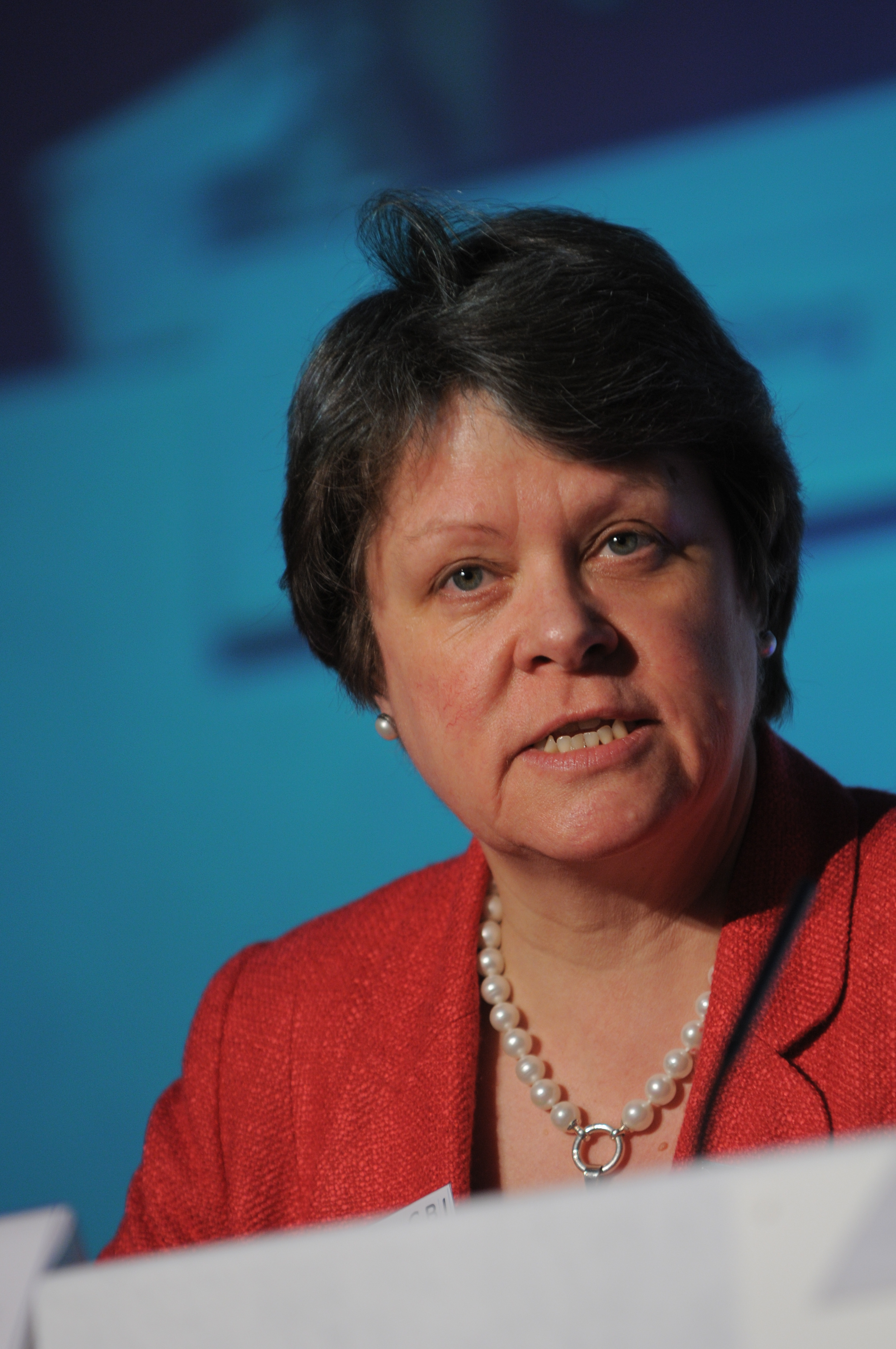 Julia King, British academic and leader of the King Review into vehicle and fuel technologies, speaking at the Confederation of British Industry's Climate Change Summit 2008 at The Royal Lancaster Hotel, London.